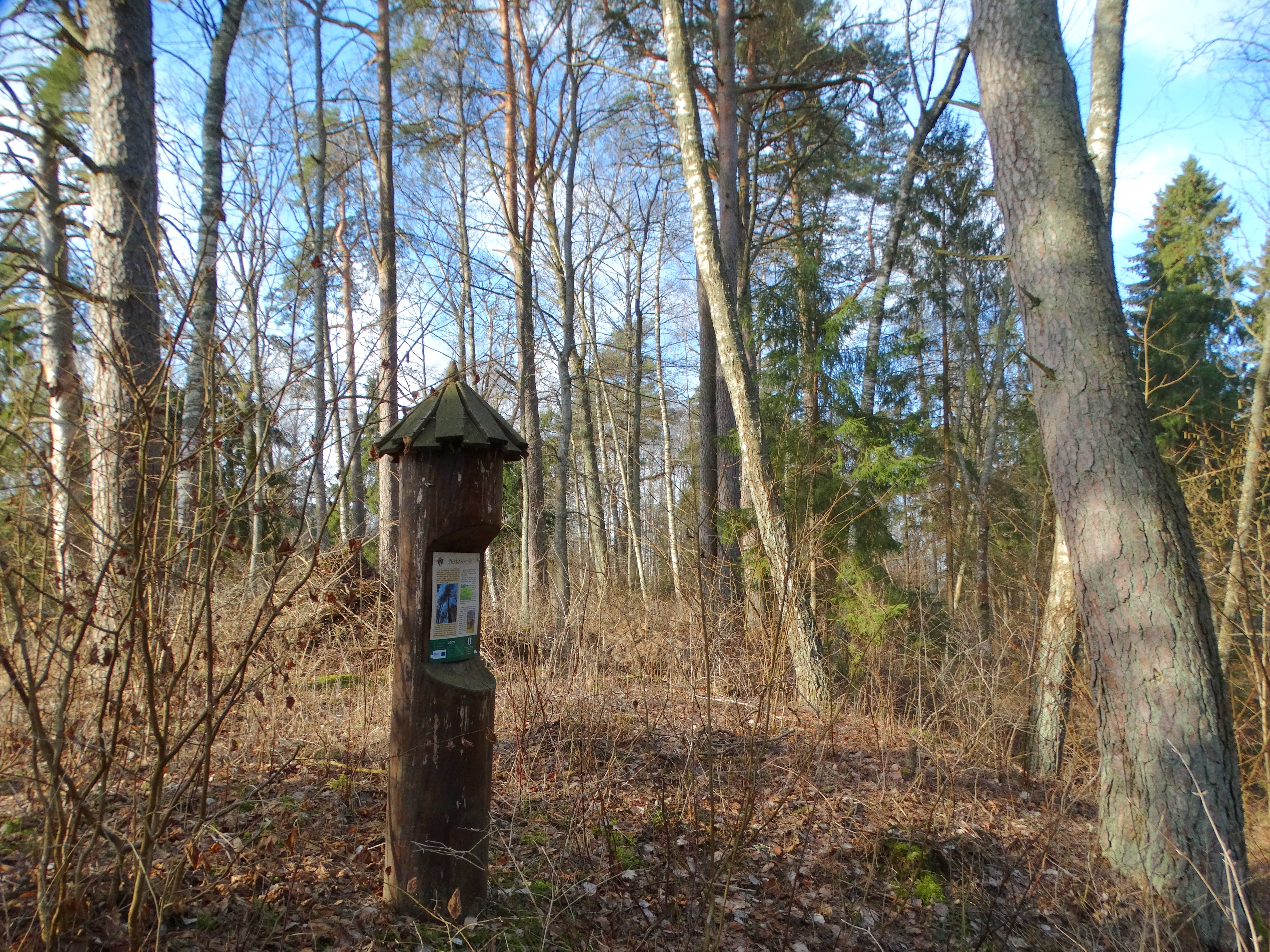 Pine trees by Windawski Canal, Šiauliai district, Lithuania